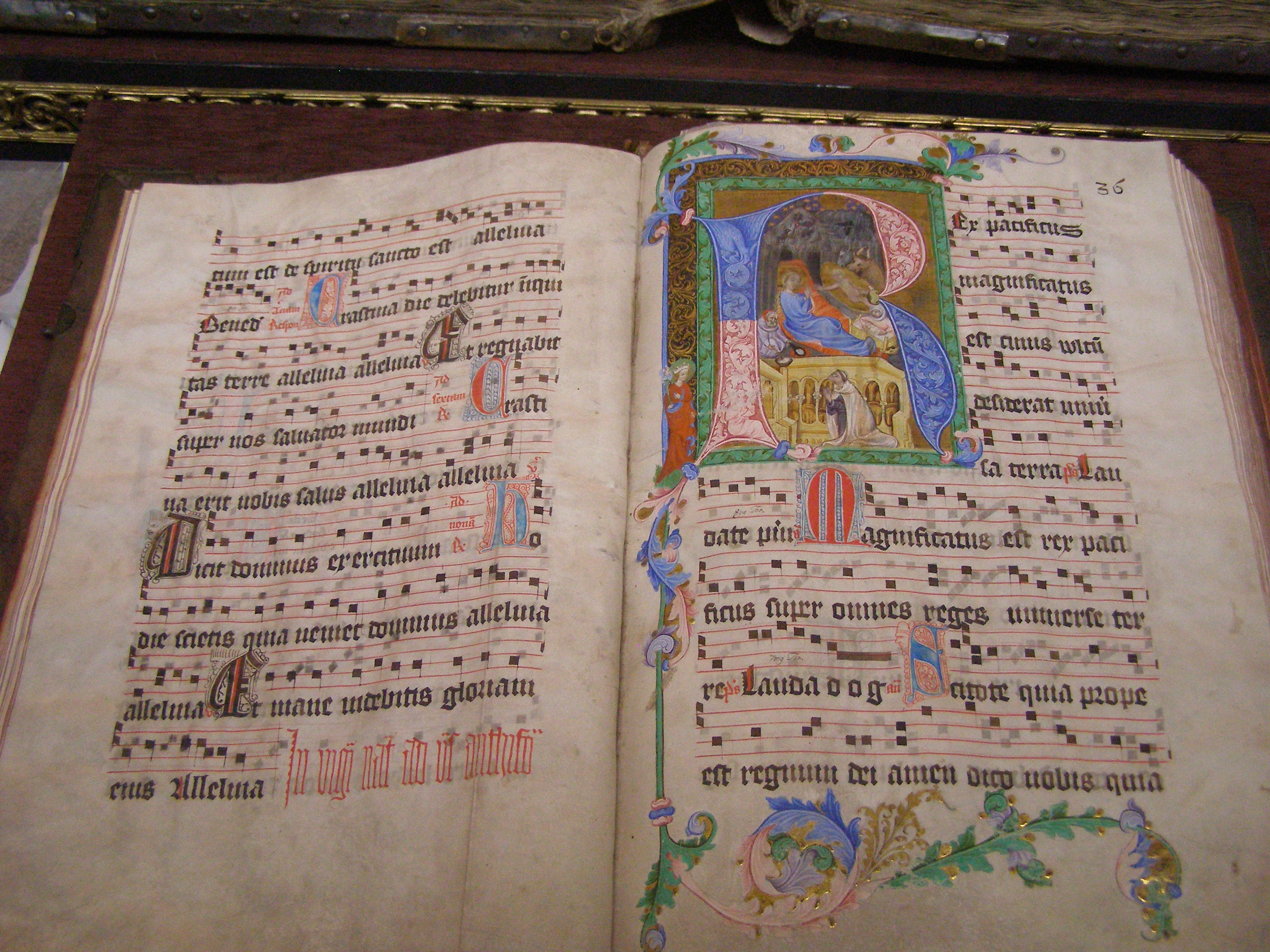 Gdańsk - "From the Treasury of the Carmelites" exhibition in the church of St. Catherine - Carmelitan Prayer Book of Antiphones, Prague 1394. One of such works brought from Prague at the very beginning of the Carmelitan foundation in Kraków.